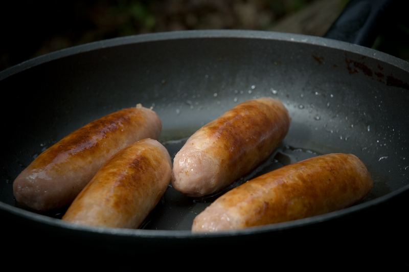 Sausages frying in pan on camping stove at Hollands Wood Campsite, New Forest, Hampshire, England, UK.